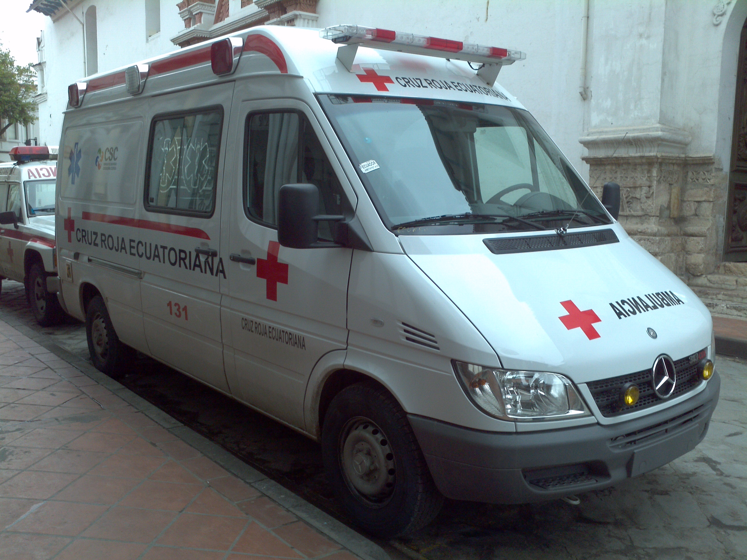 An ambulance of the Ecuatorian Red Cross in Cuenca, Ecuador.